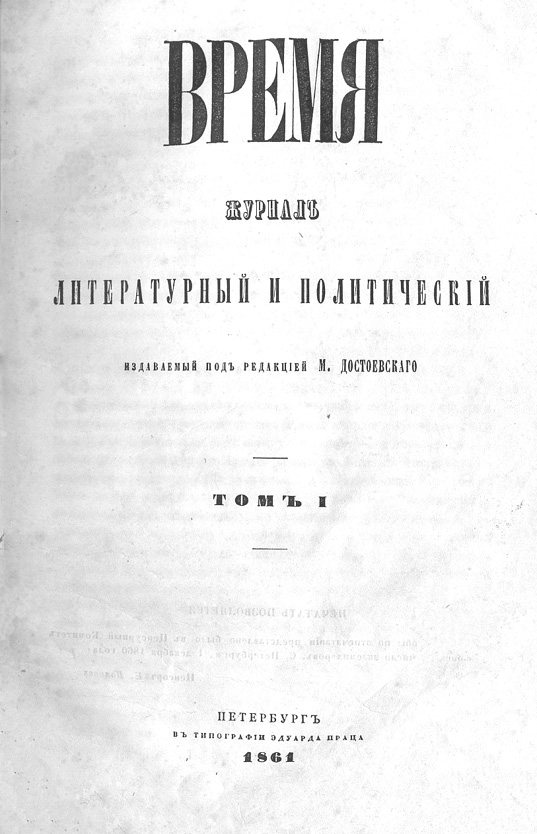 Vremya magazine, published by Mikhail Dostoyevsky.